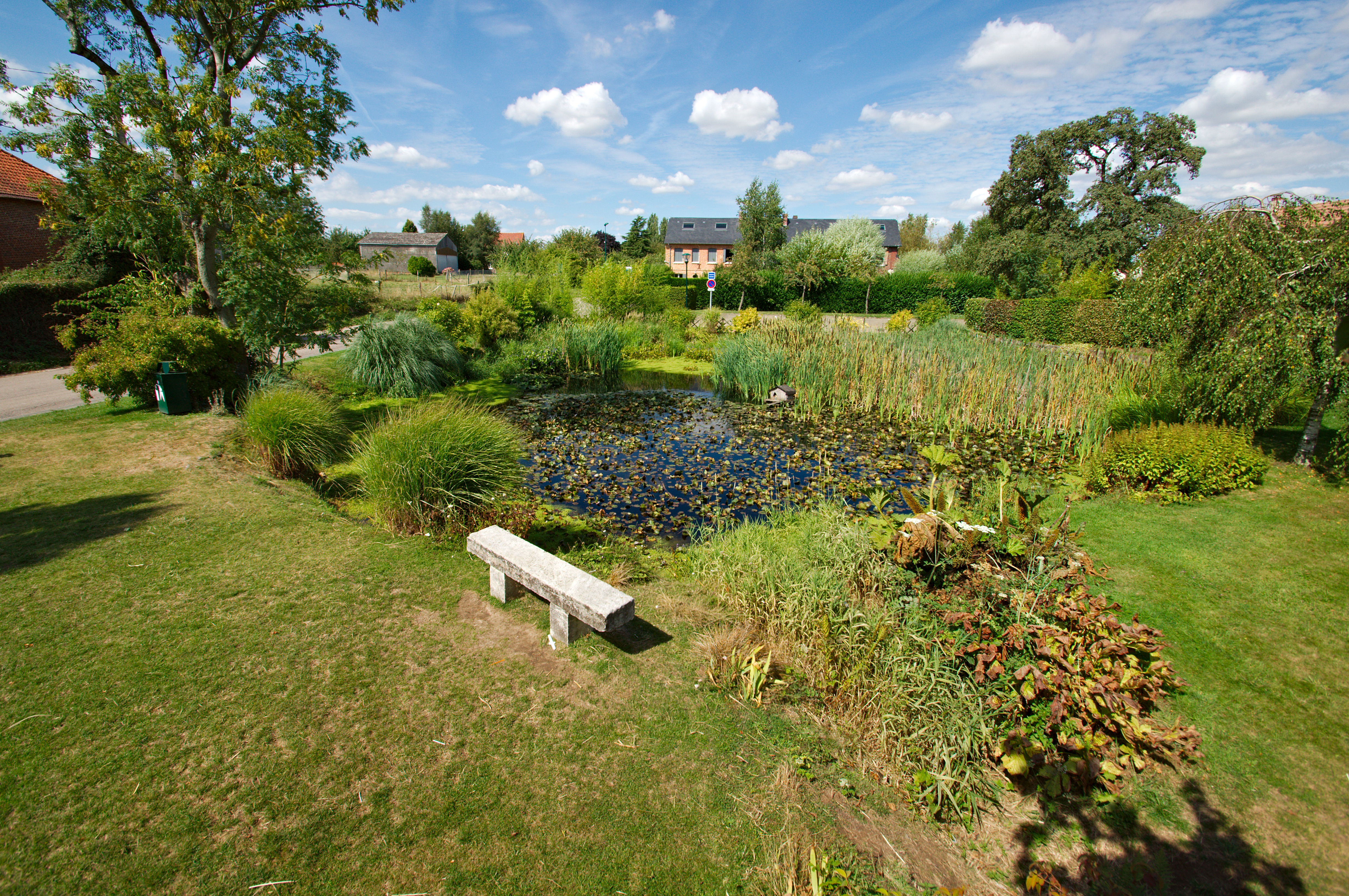 Mare communale rue Principale à Bois-l’Évêque